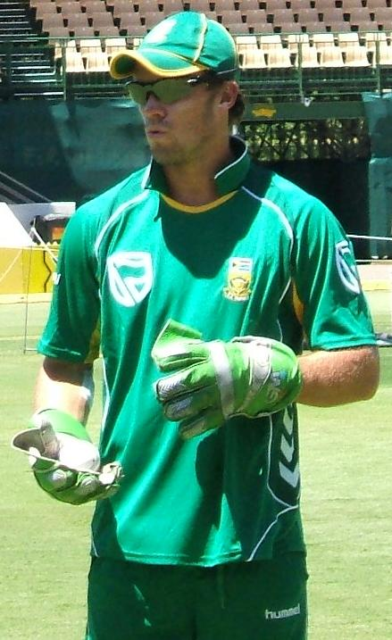 AB de Villiers at a training session at the Adelaide Oval